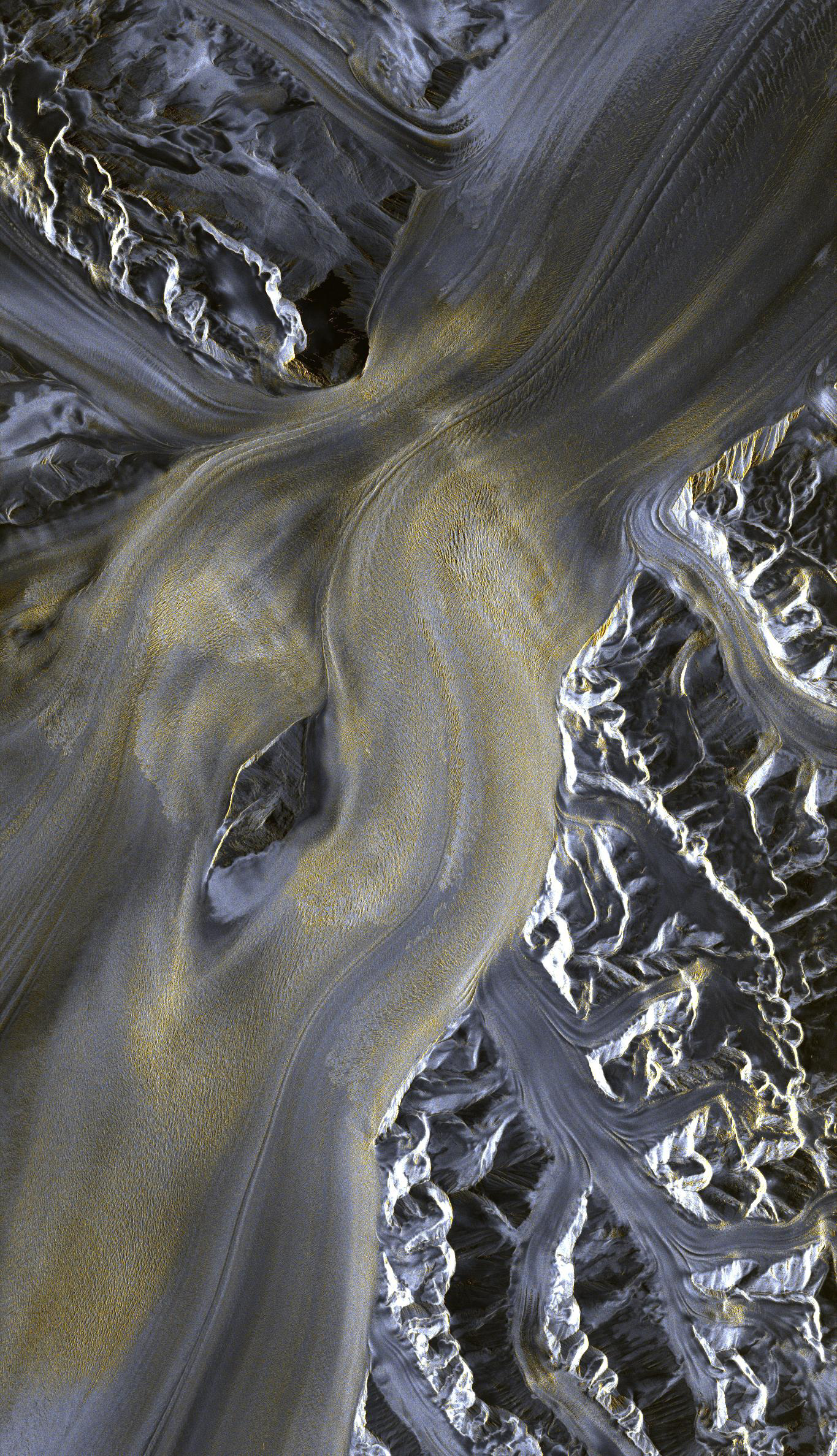 The detailed picture of around 30 kilometres sent from the TerraSAR-X radar satellite shows the Antarctic Nimrod Glacier flowing around the Kon-Tiki Nunatak, a rock protruding through the ice sheet. It is even possible to pick out the fissures in the glacier’s main body.